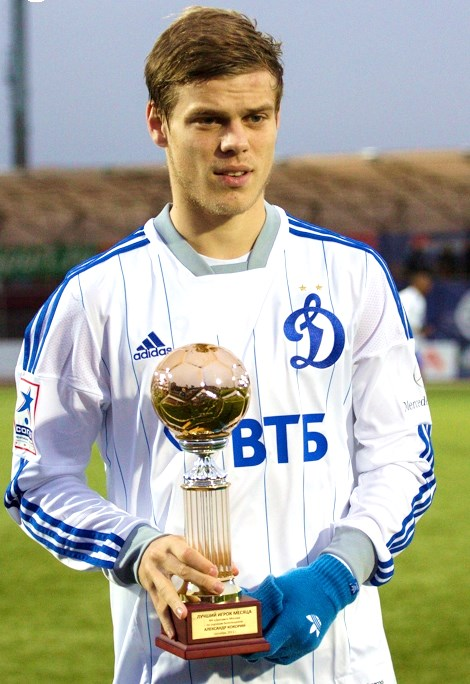 Aleksandr Kokorin 2013